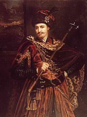 Imre Thököly, legendary Kuruc leader. He is holding his fokos.